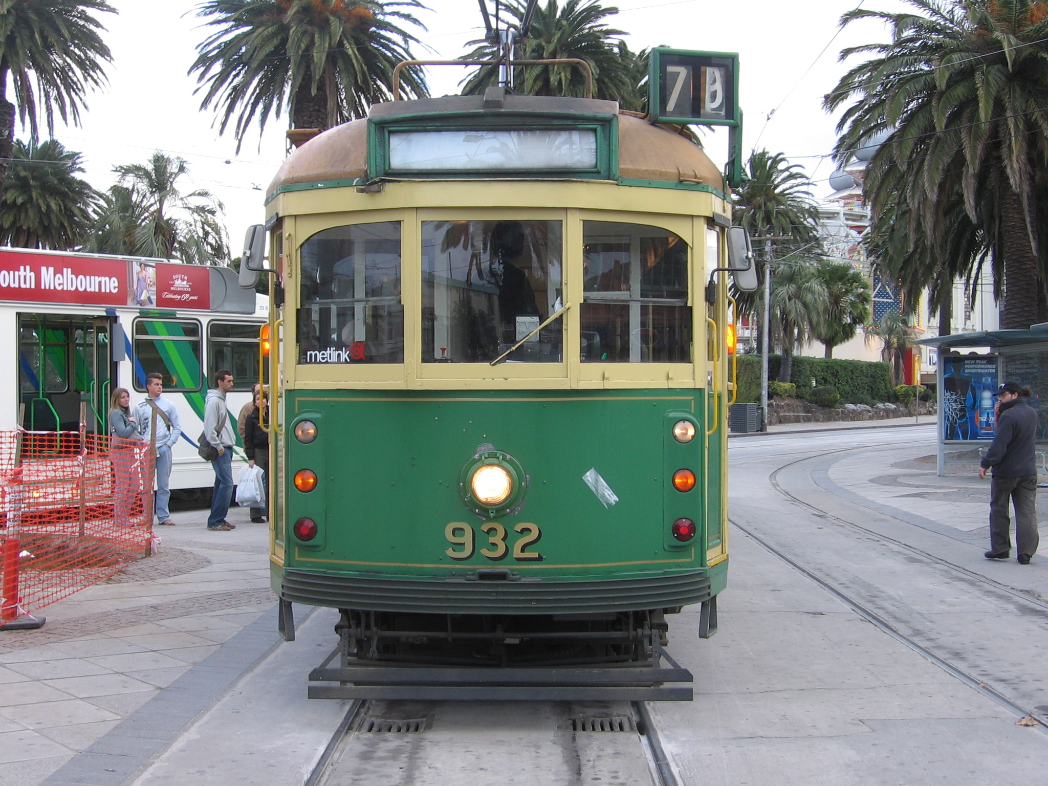 W-class tram in St. Kilda, Victoria, Australia.W Class Tram